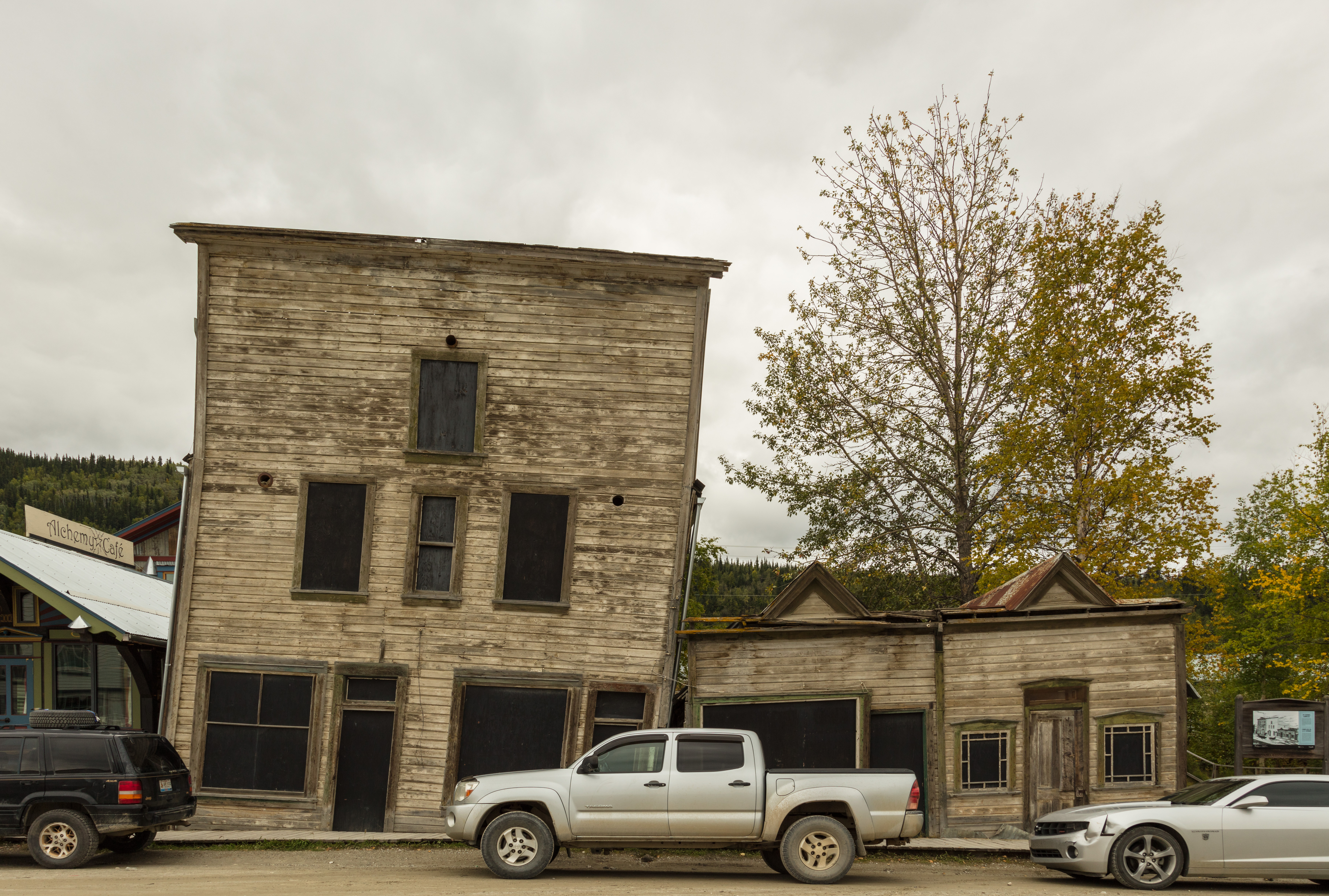 Abandoned house in the Third Avenue, Dawson City, Yukon, Canada